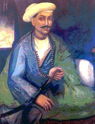 Picture of Raja bahadur Bedanad Sinha